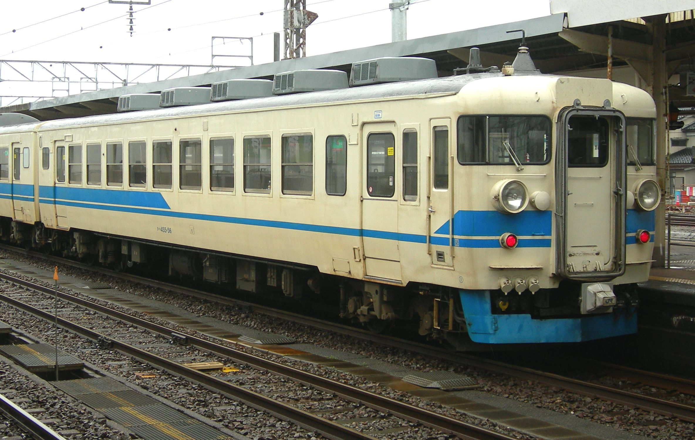 JR West 455 series EMU car KuHa 455-56 in a mixed 475/455 series set at Itoigawa Station